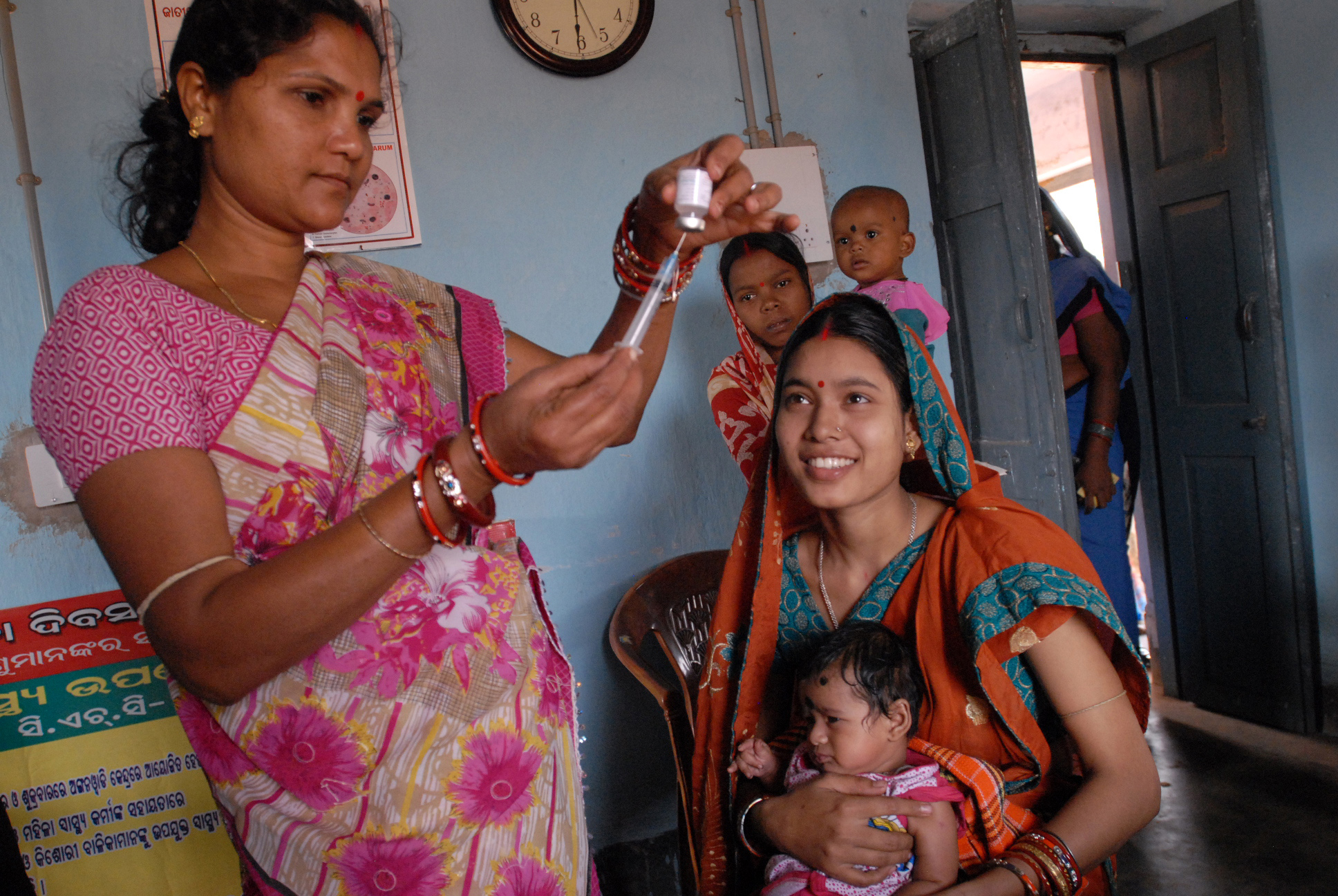 Community health worker, Rebati, gives babies like Adilya, polio and other life saving vaccinations for at least the first year of their lives. Britain is working with the Government of Odisha, one of India's poorest states, and UNICEF, to save the lives of thousands of mums and babies. Photo: Pippa Ranger, Innovation Advisor, DFID